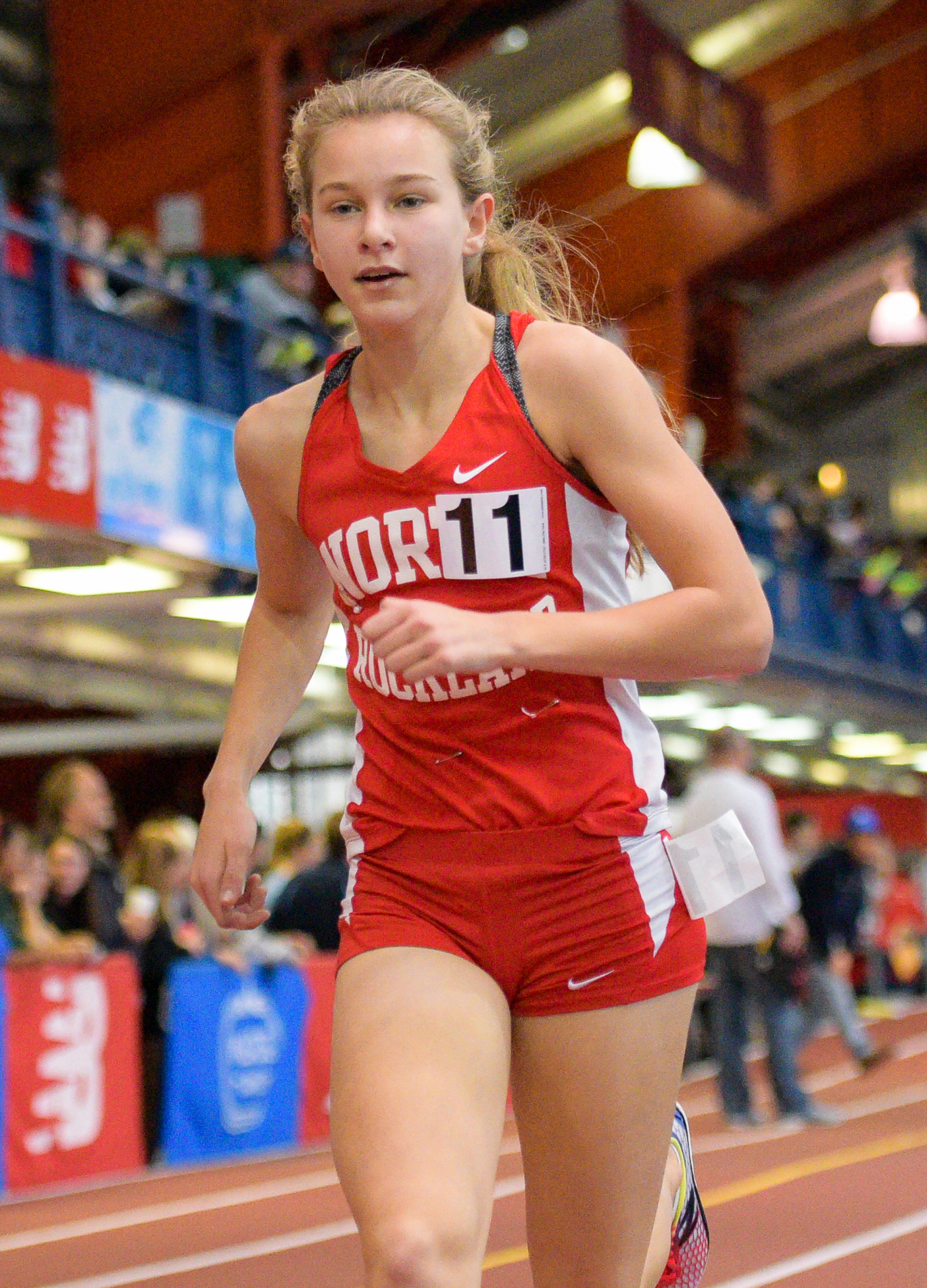 January 14, 2017 Armory New York, NY